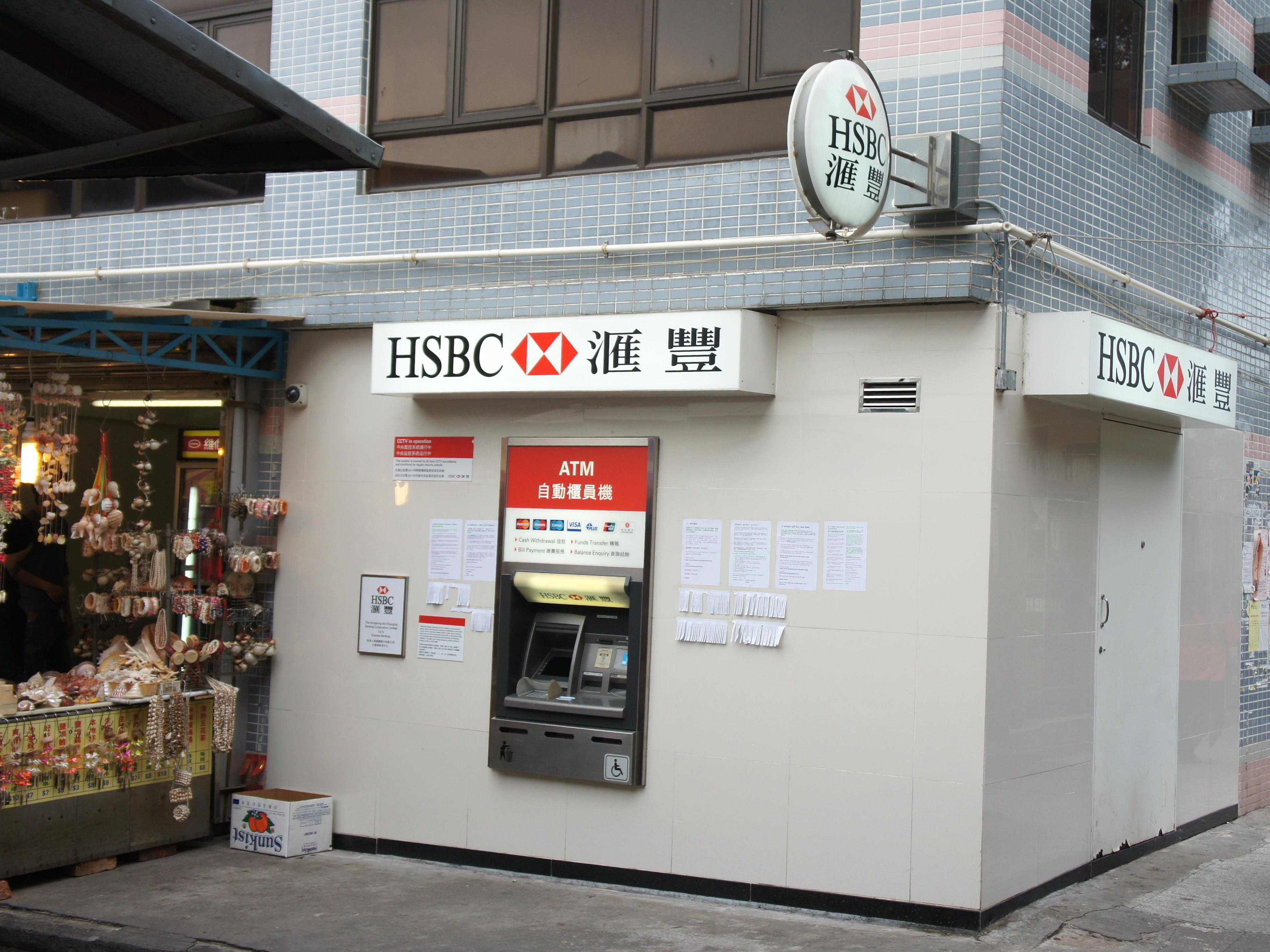 The Hongkong and Shanghai Banking Corporation Limited (HSBC) Tai O Express Banking at 25 Market Street, Tai O, Lantau Island, Hong Kong.